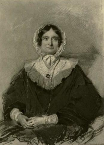 Sarah Hoare in 1840 from her memoirs of her father Samuel Hoare